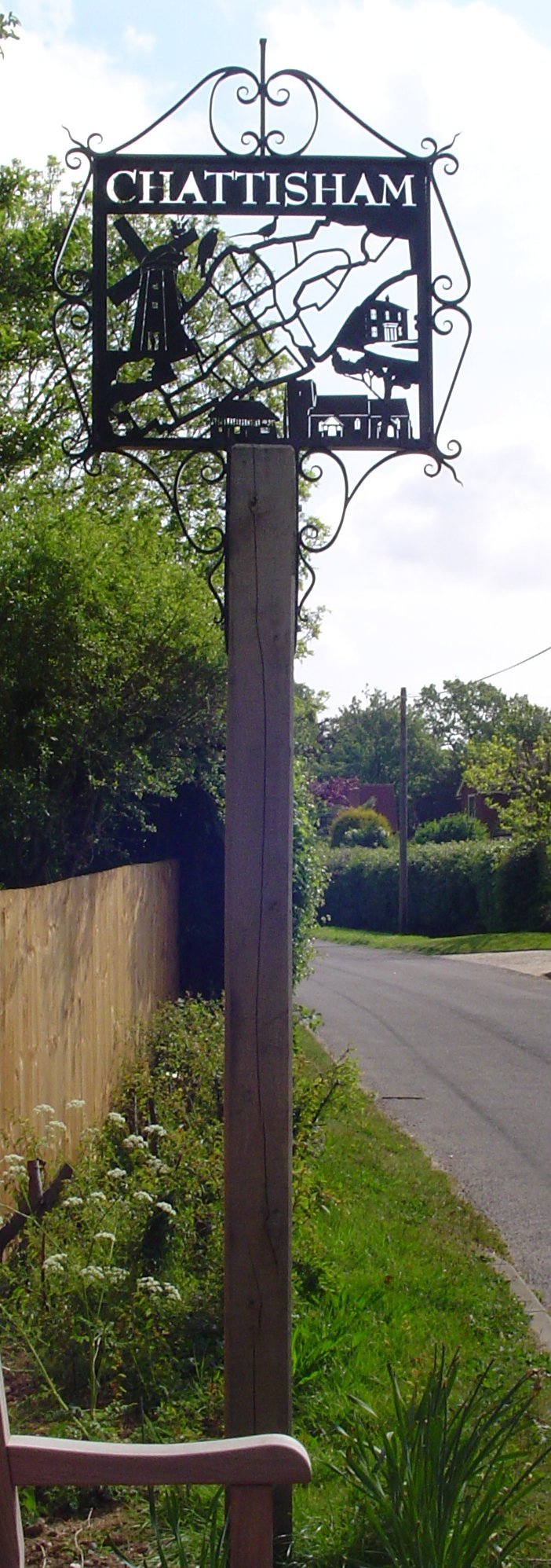 Signpost in Chattisham